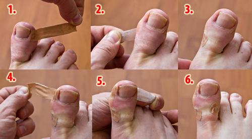 Ingrown toenail - two sides treatment